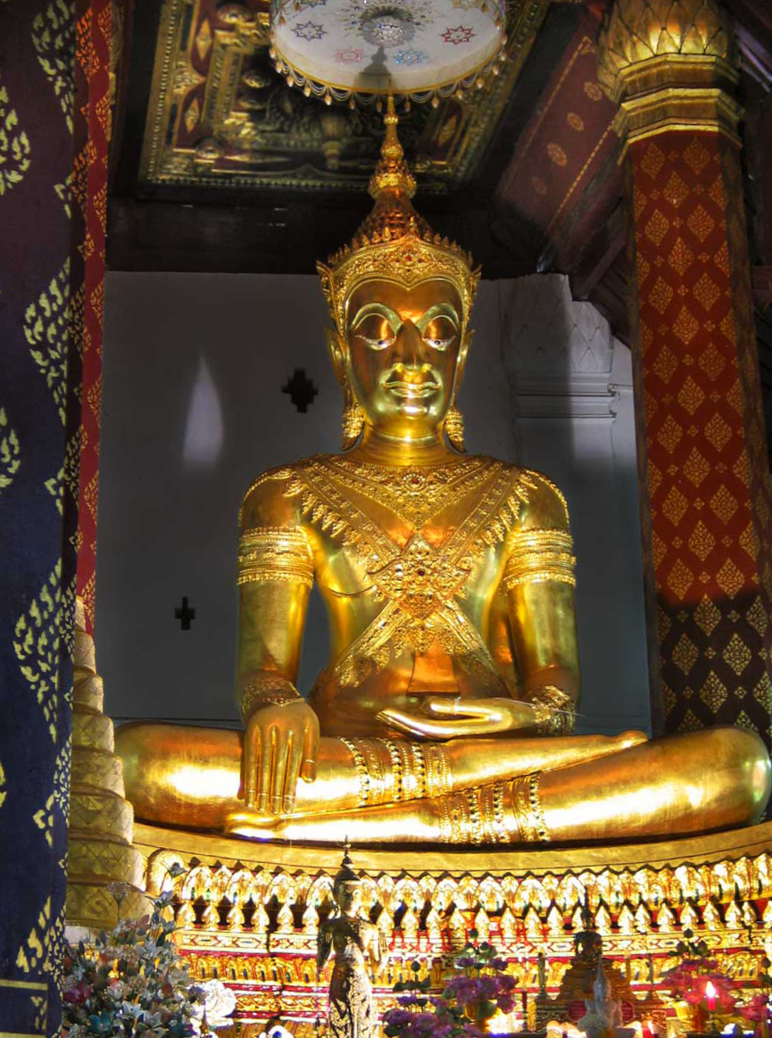 Buddha-statue in Ubosot, Wat Na Phra Men, Ayutthaya Thailand.